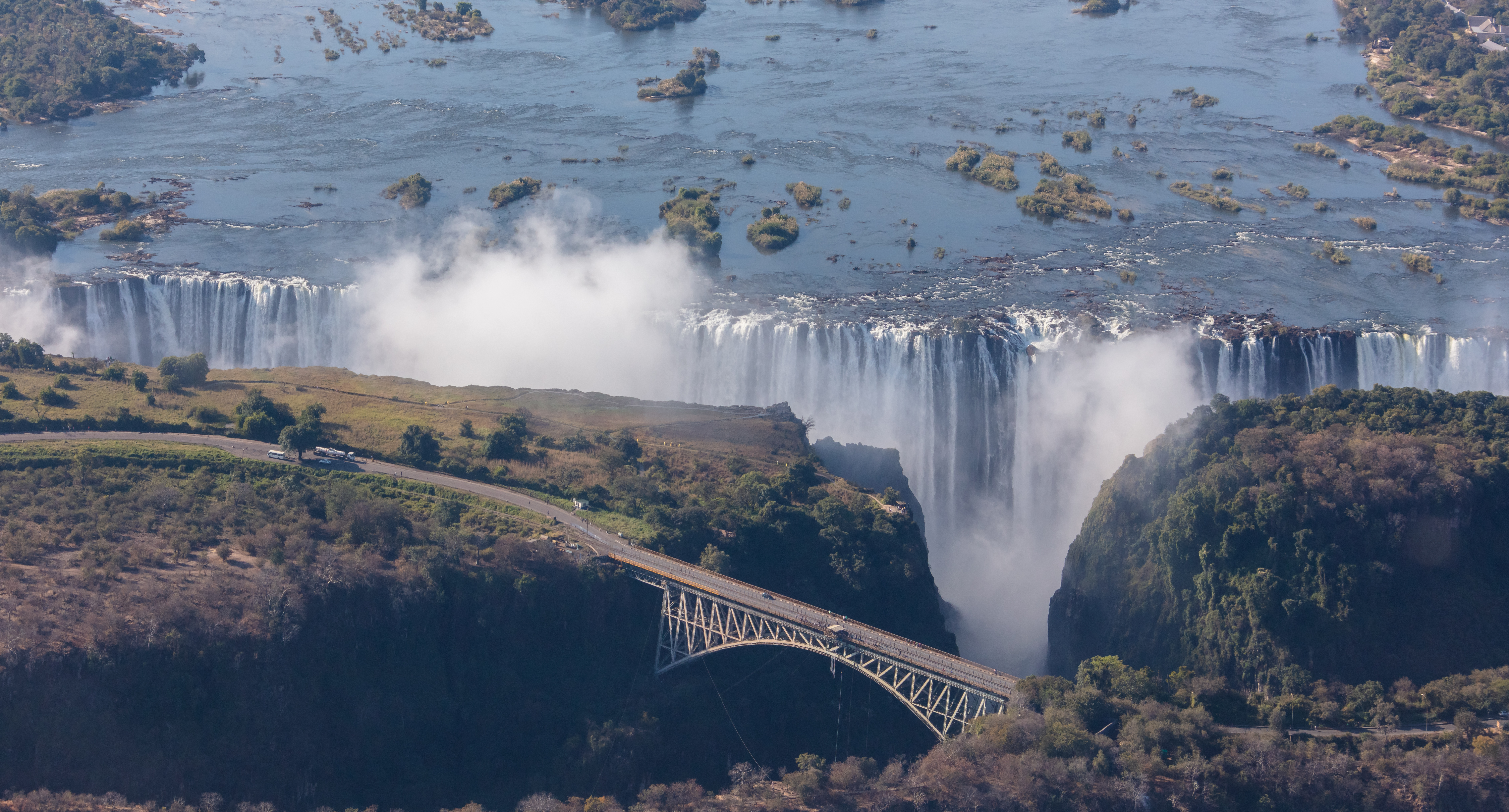 Victoria Falls, Zambia-Zimbabwe